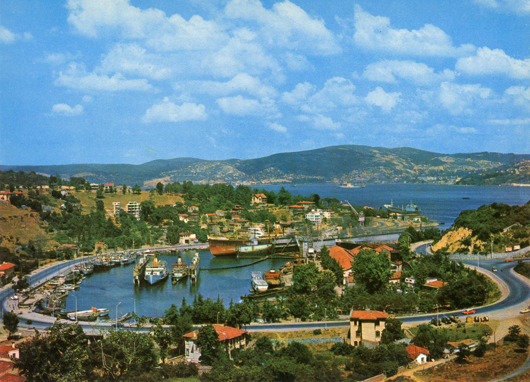 The Bosphorus, general view of İstinye Bay, İstanbul SALT Research, Photograph Archive Boğaziçi, İstinye Koyu’ndan umumi bir görünüş, İstanbul SALT Araştırma, Fotoğraf Arşivi